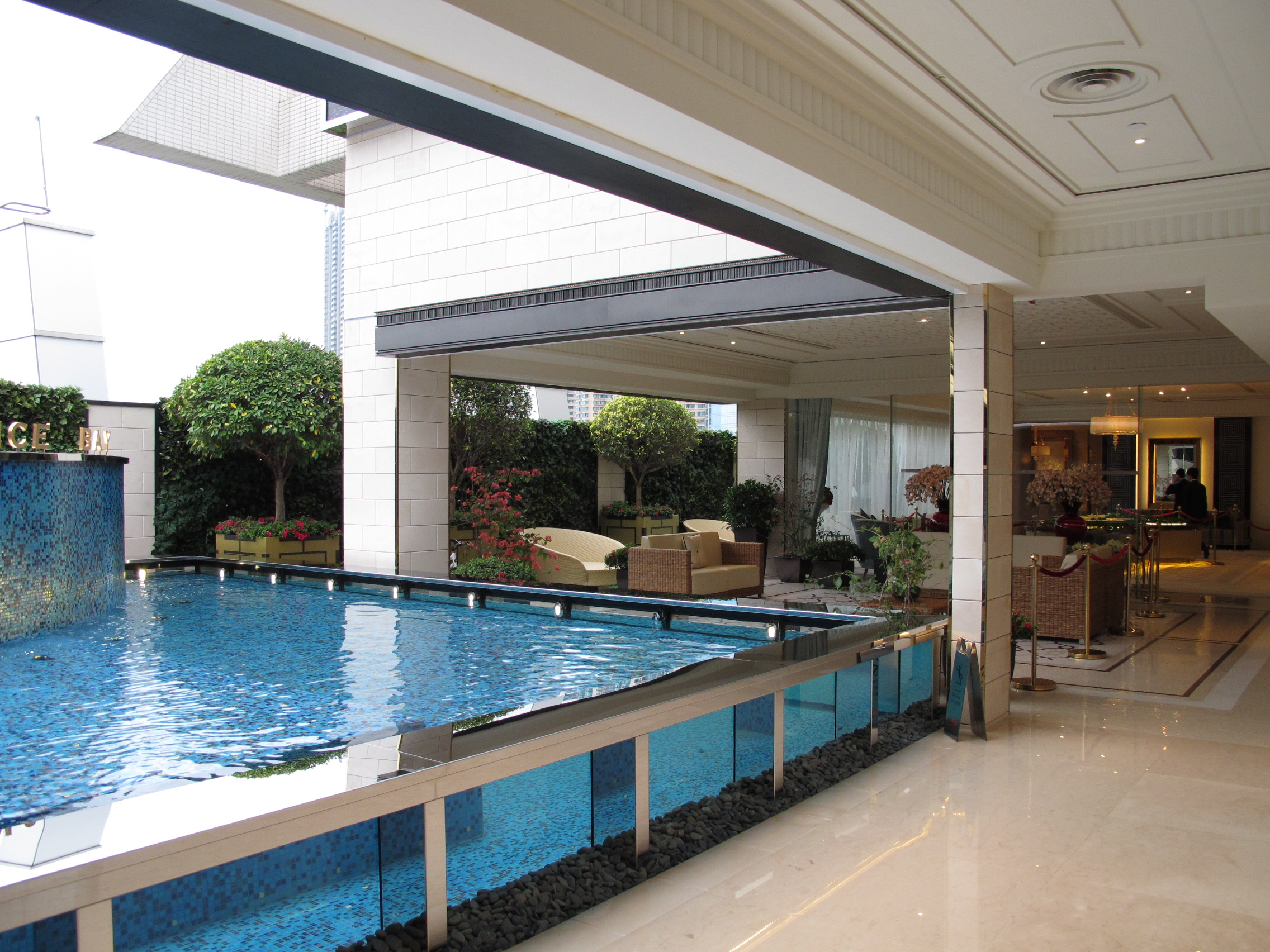 Providence Bay Showflat demo environment